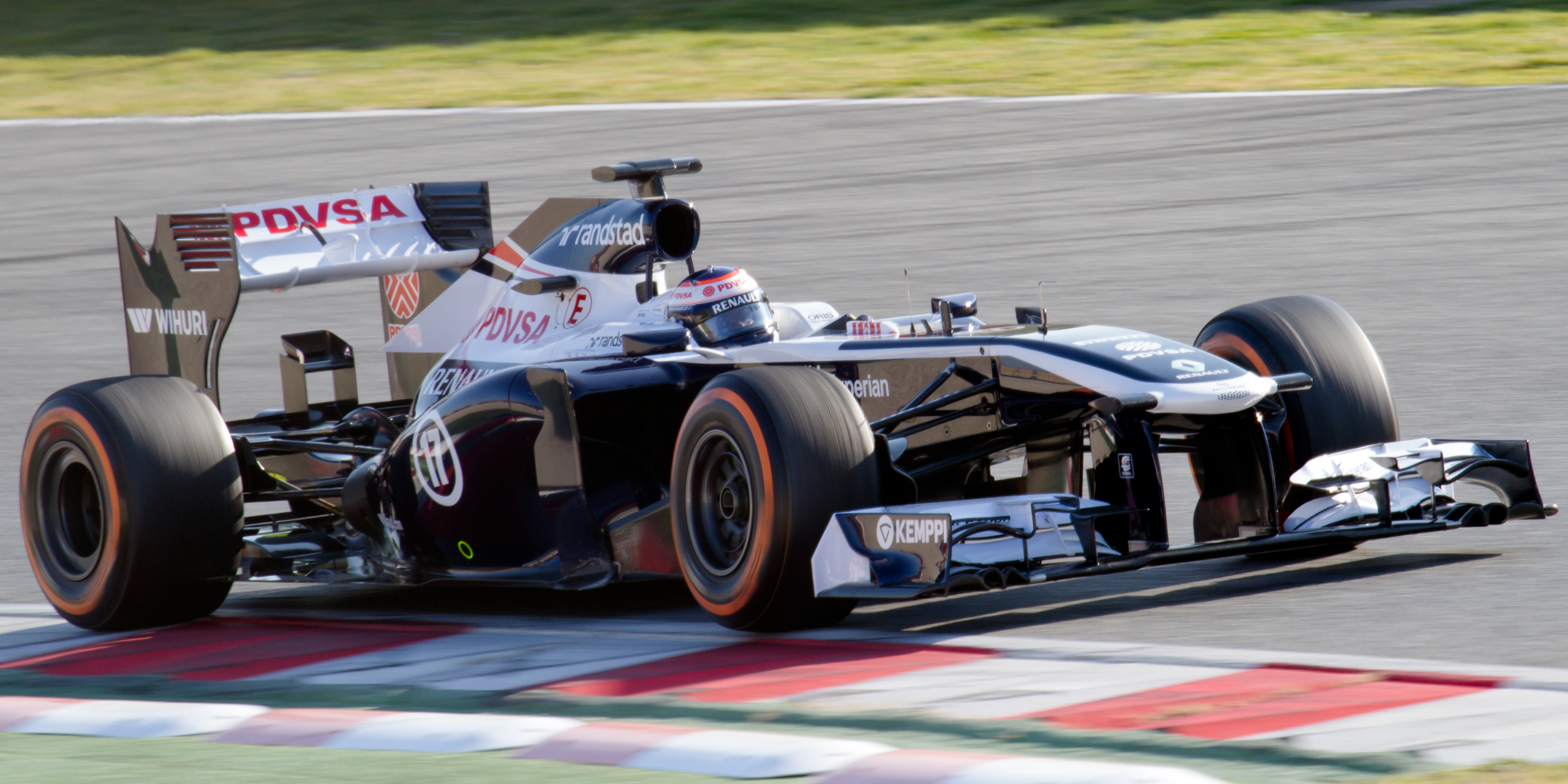 Formula One 2013 Catalonia test (19-22 February): Valtteri Bottas (Williams)